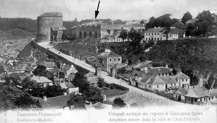 postcard